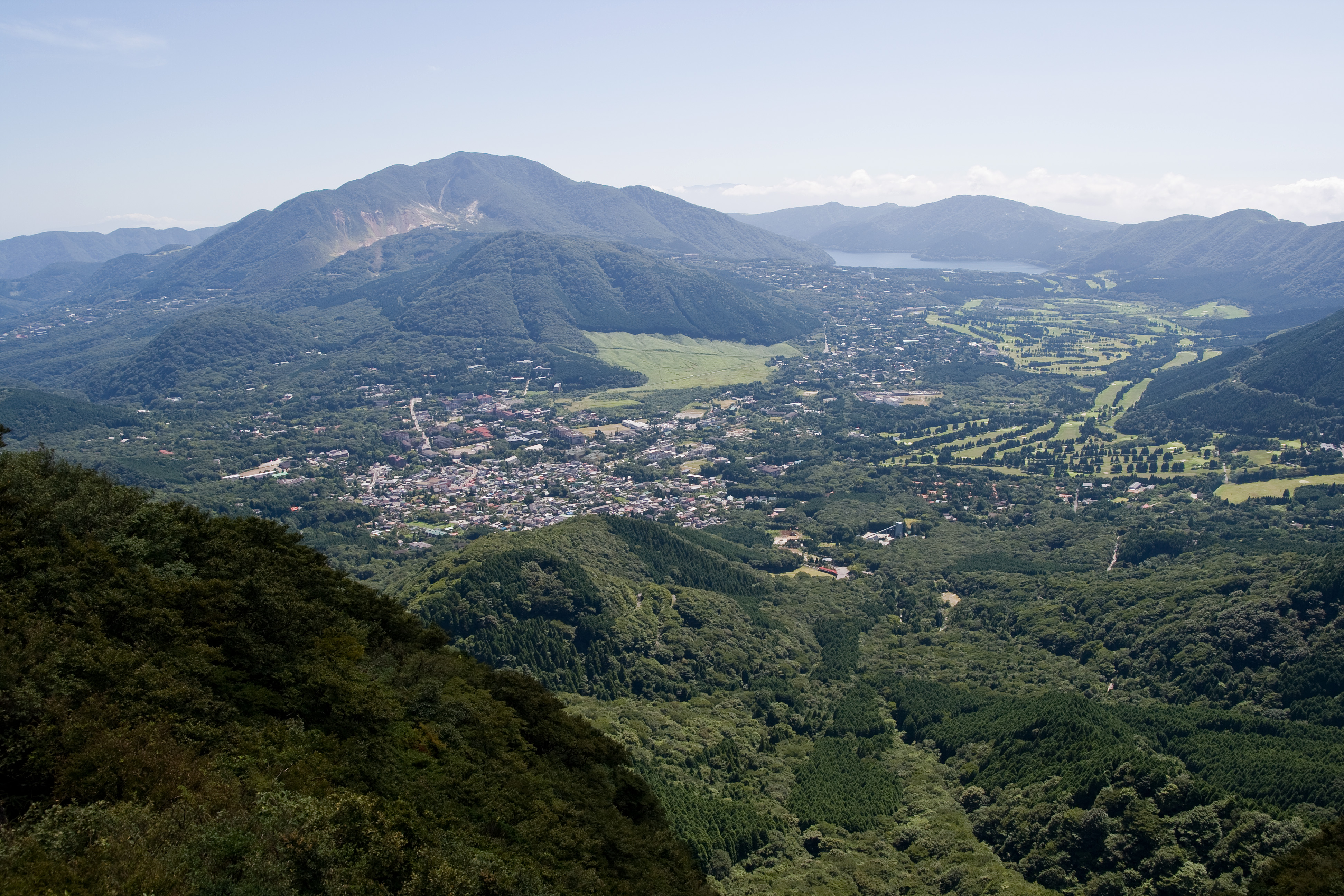 Mt.Kami as seen from Mt.Kintoki in Kanagawa Prefecture, Honshu, Japan.